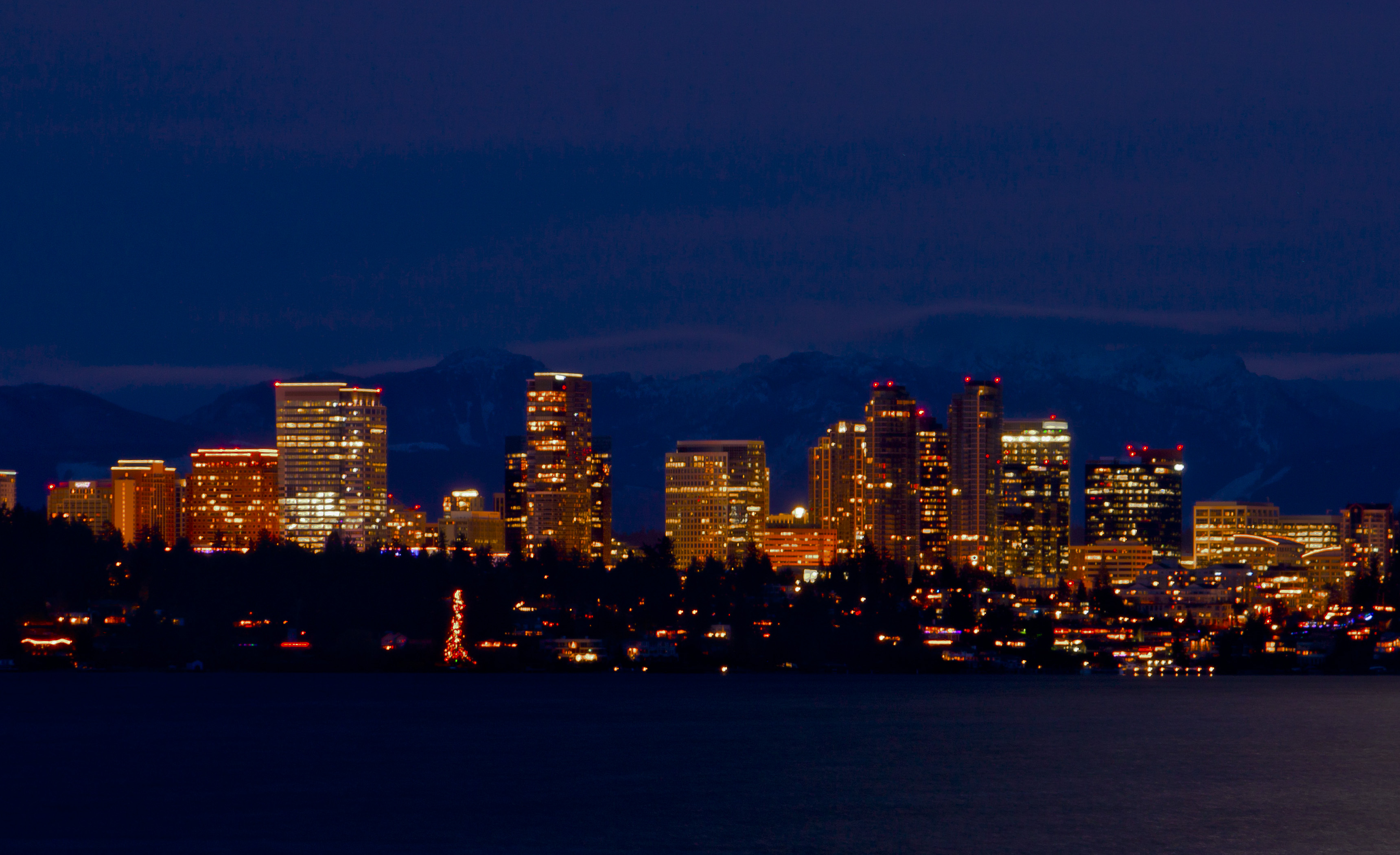 Bellevue downtown as seen from Leschi Park.